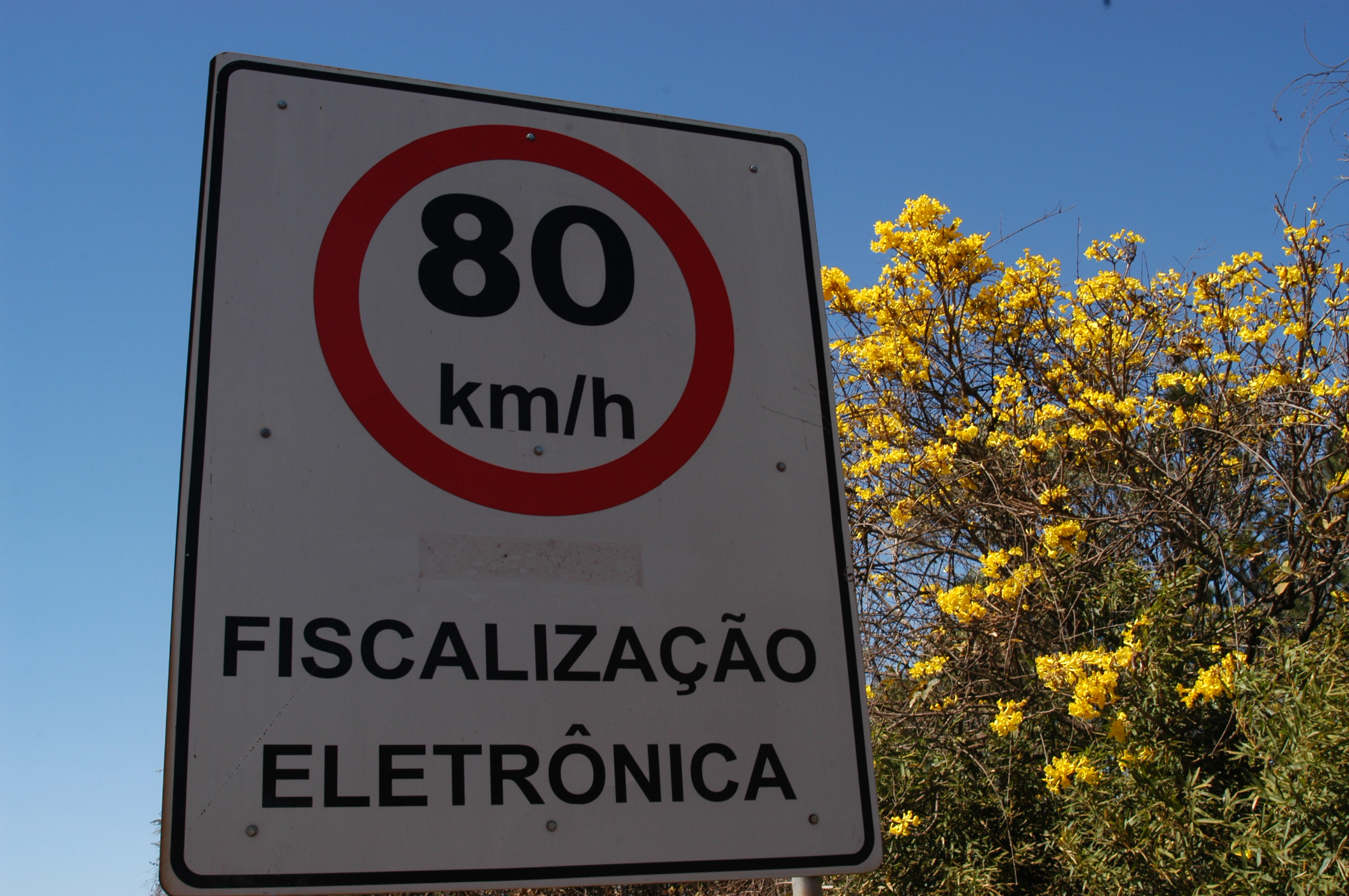 speed sigh